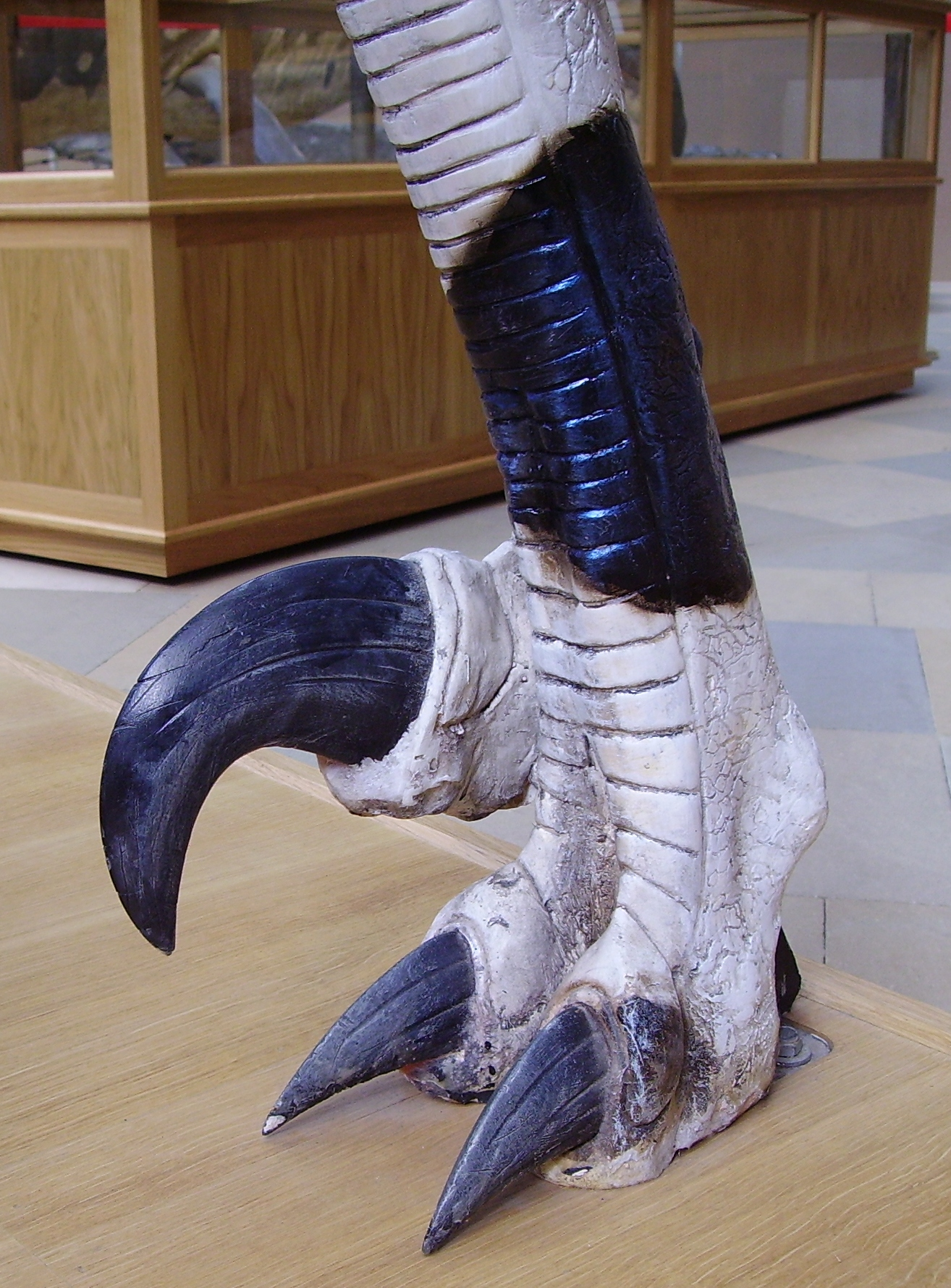 Model of a Utahraptor foot, showing specialized claw, Oxford Museum.